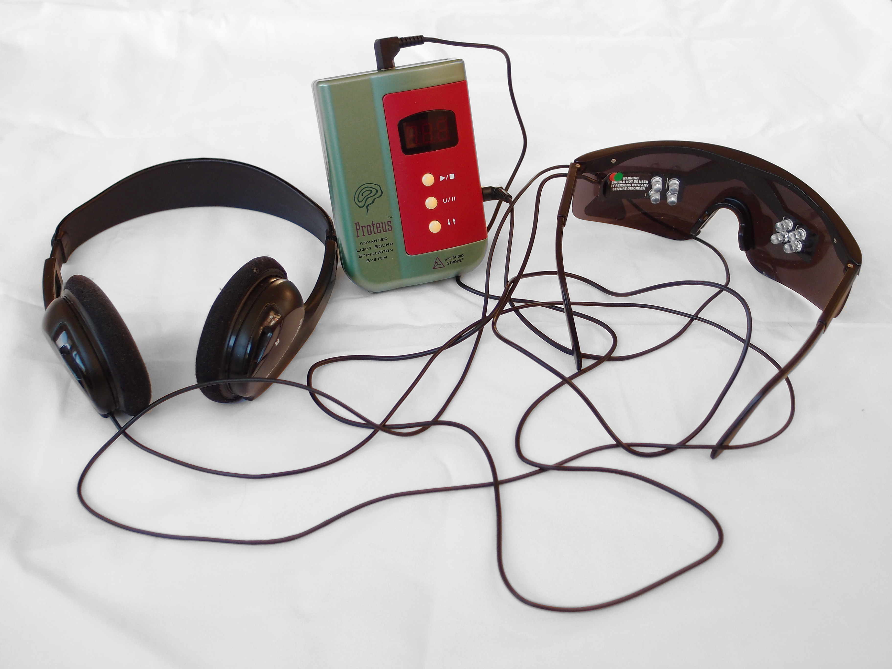 A mind machine, Proteus, from MindPlace.